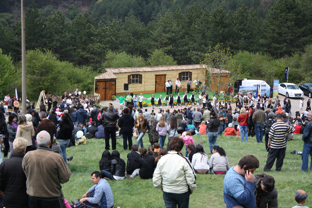 Folk Dances at Saint Geoge's Day feast stage at Kremikovtsi Monastery